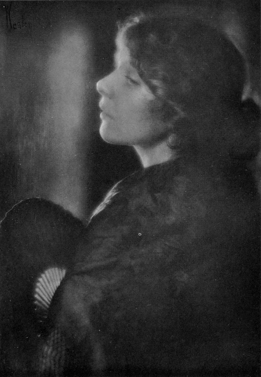 Carlota by Edward Weston. Weston's muse Margrethe Mather portrays Empress Carlota of Mexico.Reference: Warren, Beth Gates (2011) Artful Lives: Edward Weston, Margrethe Mather, and the Bohemians of Los Angeles, J. Paul Getty Museum, pp. 59-61 ISBN: 9781606060704.